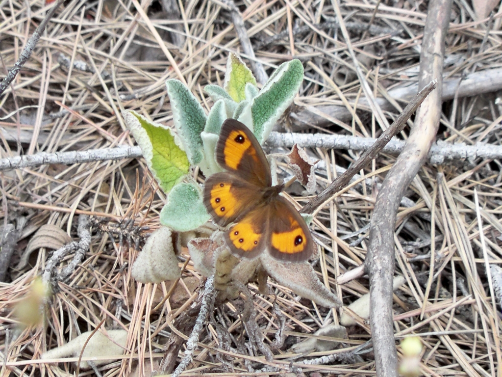 Male Spanish gatekeeper butterfly (Pyronia bathseba).